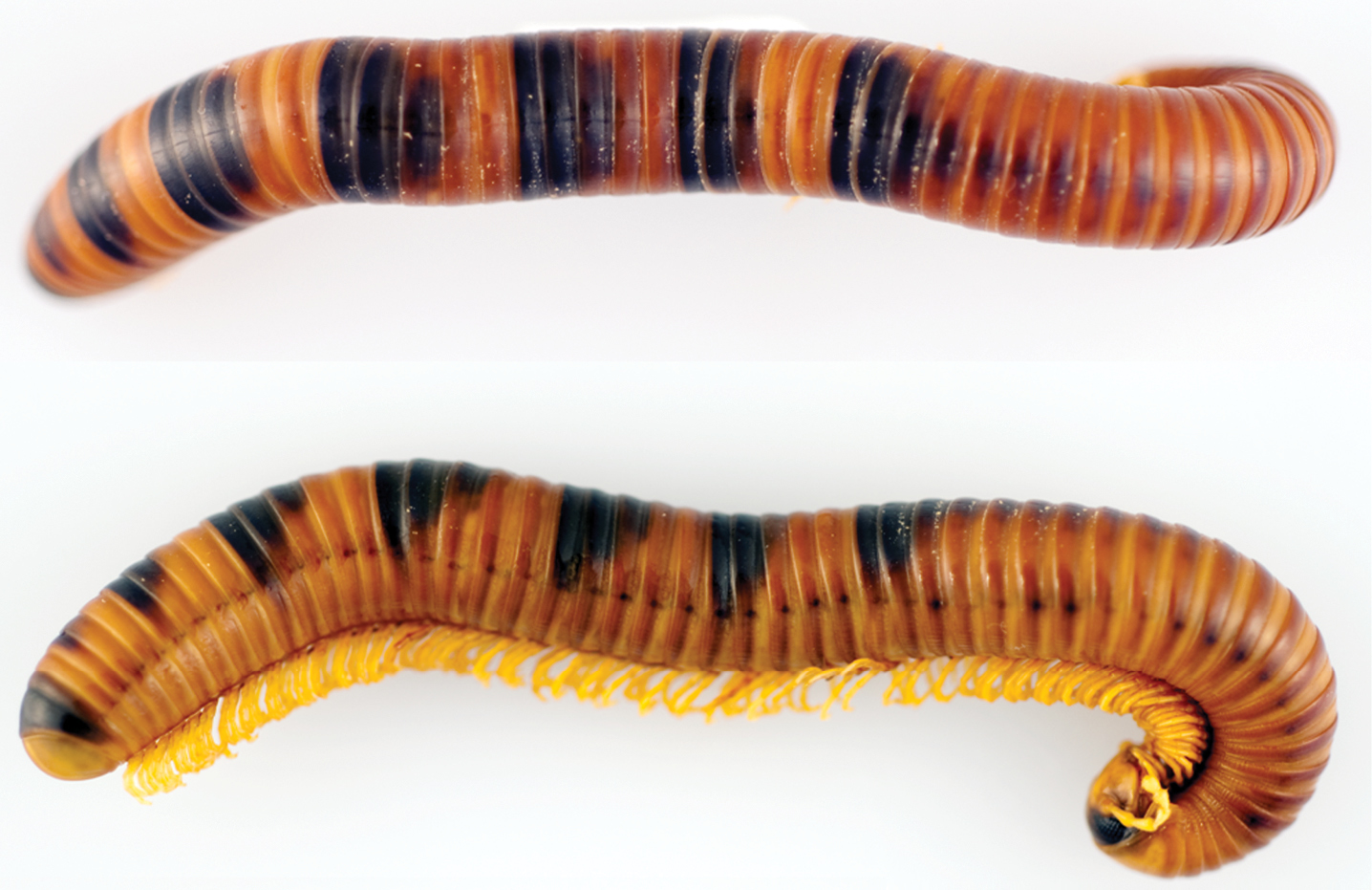 Sagmatostreptus strongylopygus, subadult female from Amani, E Usambara Mts., Tanzania, 11 April 1985, T.G. Nielsen leg. (ZMUC), dorsal and lateral views. N. Ioannou phot. Length of specimen 117 mm.